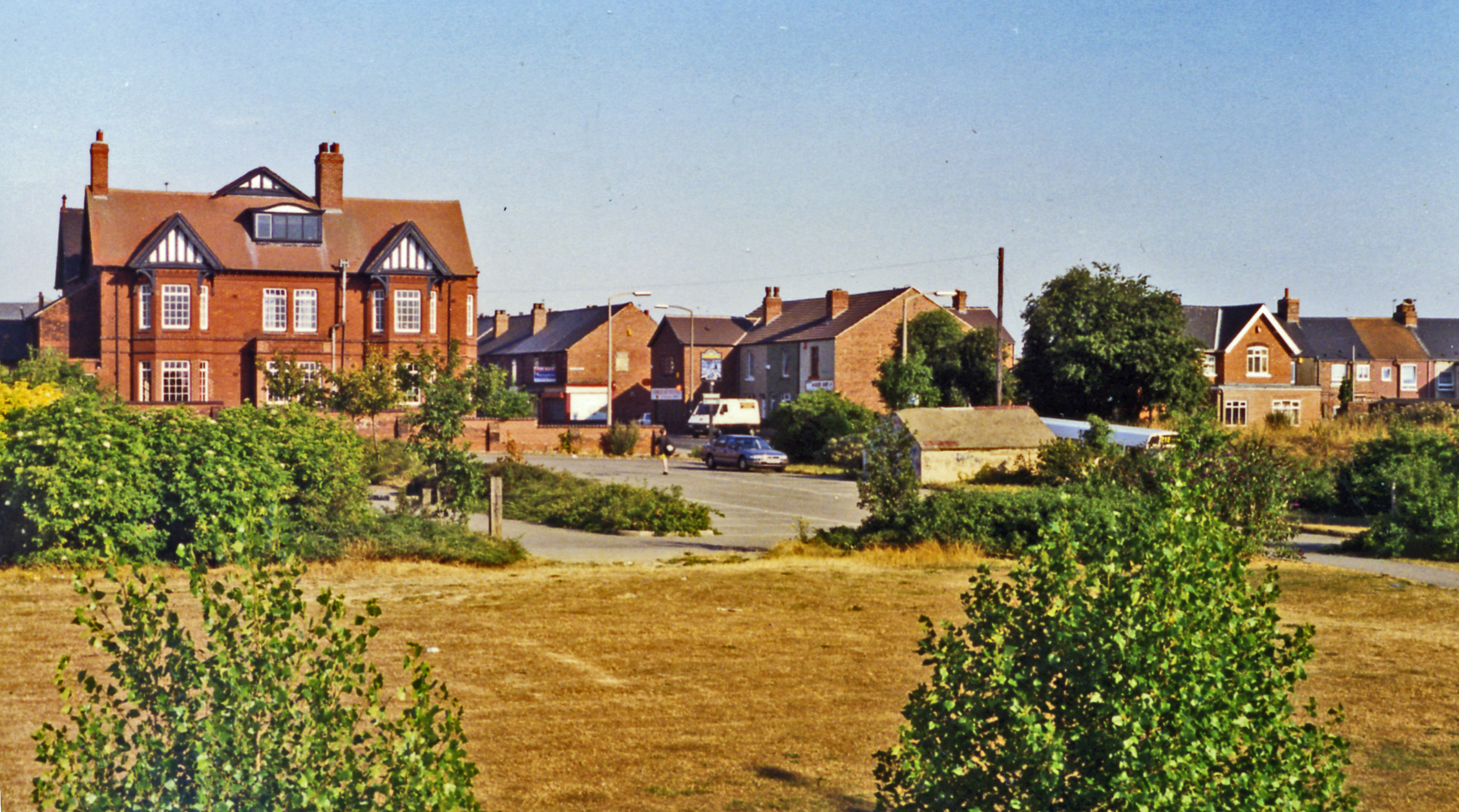 Thurnscoe: site of former Hickleton & Thurnscoe (H&B) station. View eastward from the new (16/5/88) Thurnscoe station on the ex-Midland & NE (Swinton & Knottingley) Joint line, the main Sheffield - York line. Parallel to this had run the Hull & South Yorkshire Extension Railway from Wrangbrook Junction on the Hull & Barnsley Railway to Wath, with a station here named Hickleton & Thurnscoe: the station and line lasted for passengers until 6/4/29, for goods until 31/5/54